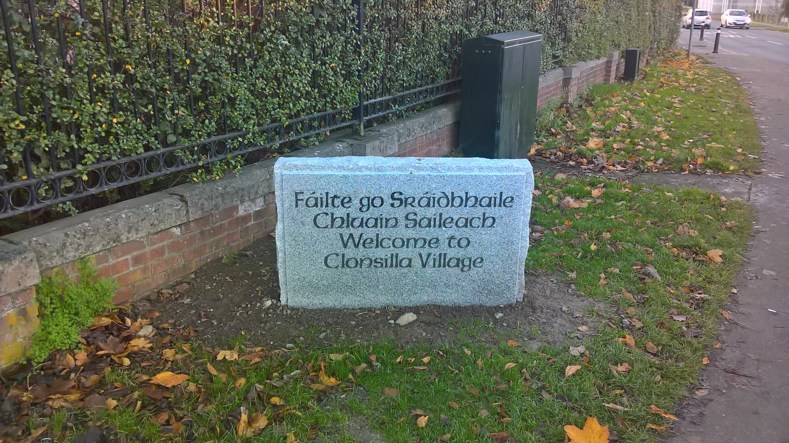 Bilingual sign in English/Irish welcoming people to Clonsilla Village in Dublin.